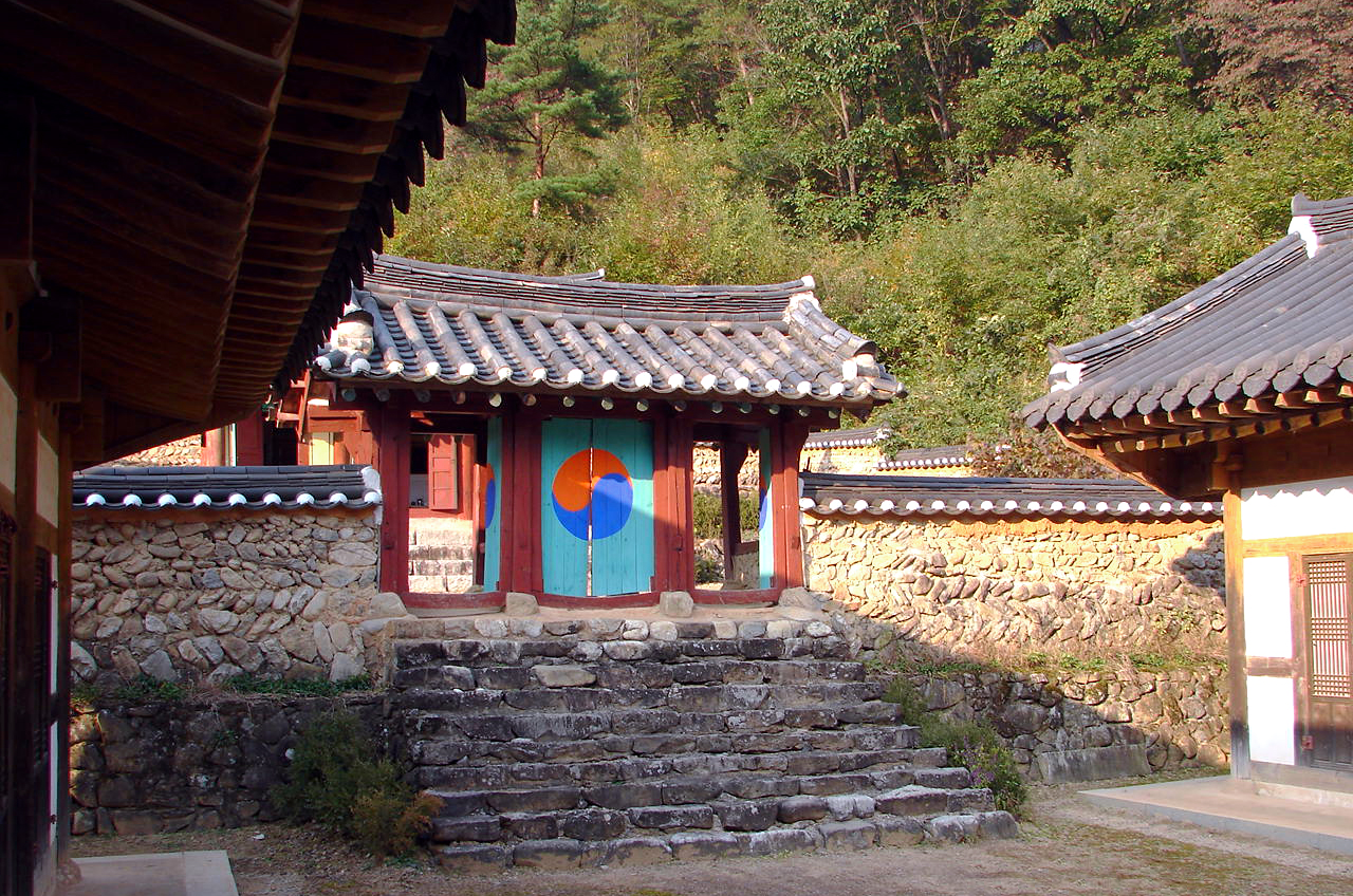 Isanmyo (shine complex), built in 1925 to memorialize 4 holy kings; Dangun, Taejo, Sejong and Gojong, 40 loyal subjects, 34 patriotic leaders and as well as Confucian scholars of the Joseon Dynasty. The shine is located at the entrance to Maisan Provincial Park in Jinan County - North Jeolla Province, South Korea Jinan County, North Jeolla Province, South Korea